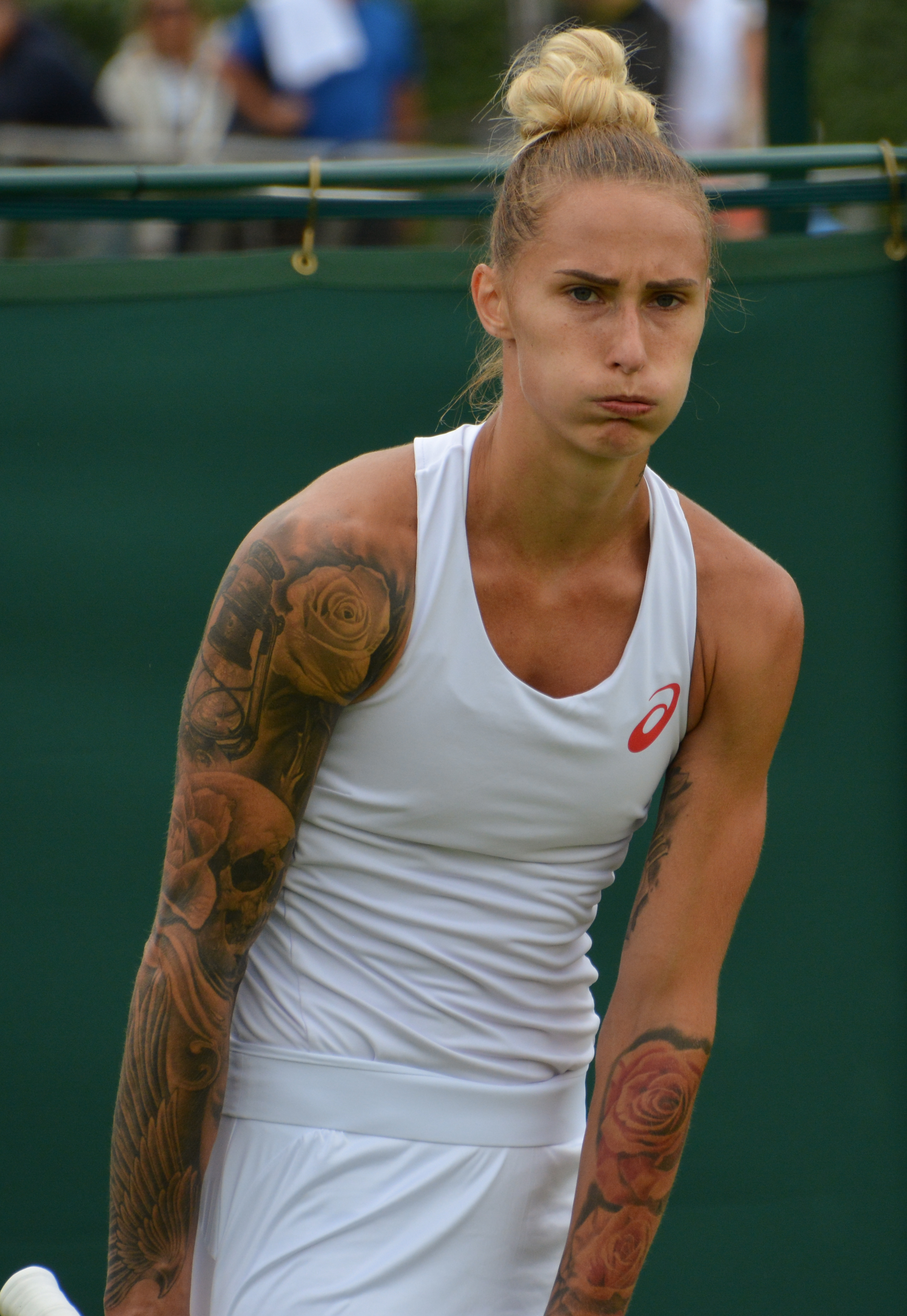 Polona Hercog. Wimbledon qualifying, Roehampton 2017.